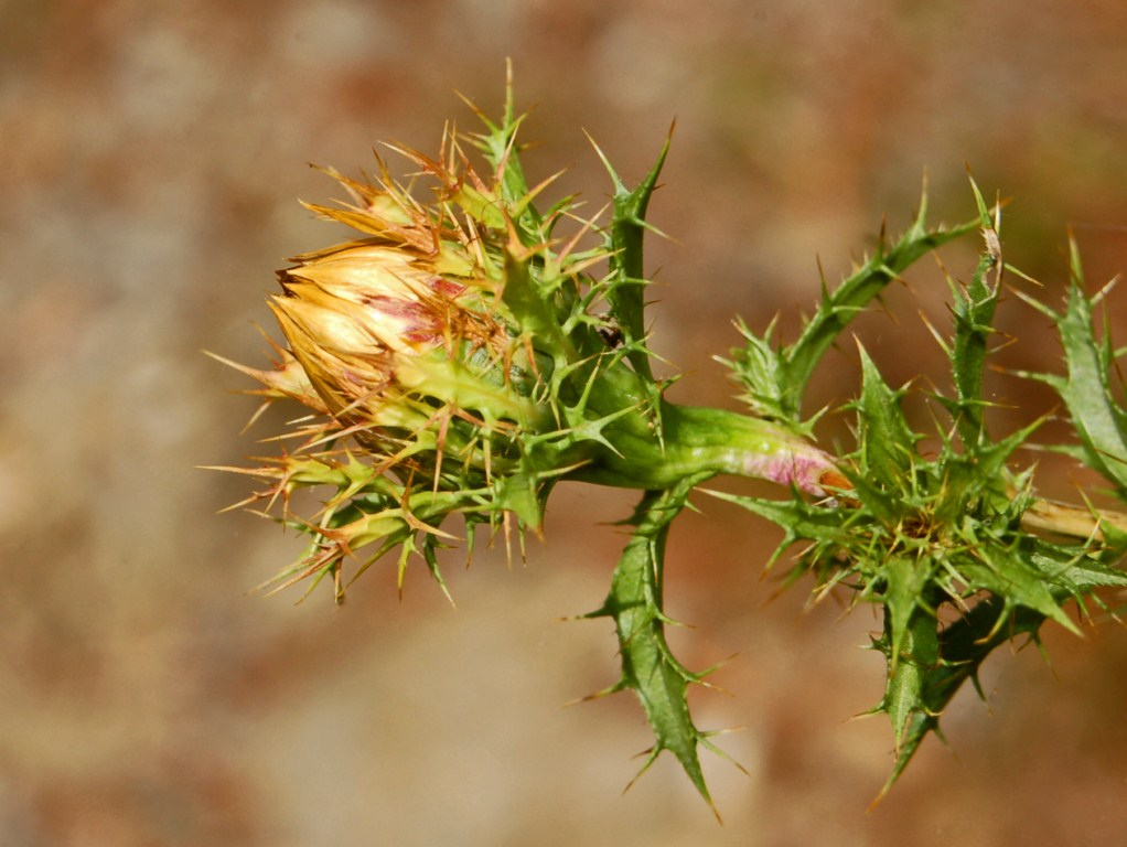 Carlina corymbosa - Genova, Italy